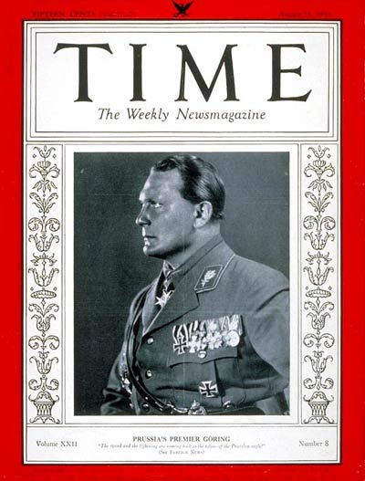 Hermann Göring on Time magazine cover, 1933.